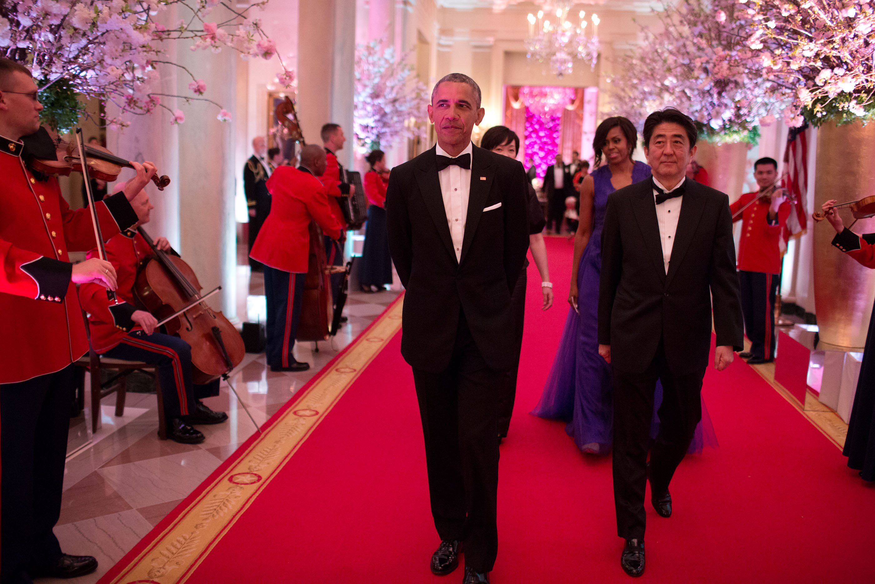 Prime Minister Shinzo Abe of Japan - President Obama and Prime Minister Abe walk from the East Room to the State Dining Room. (Official White House Photo by Pete Souza)